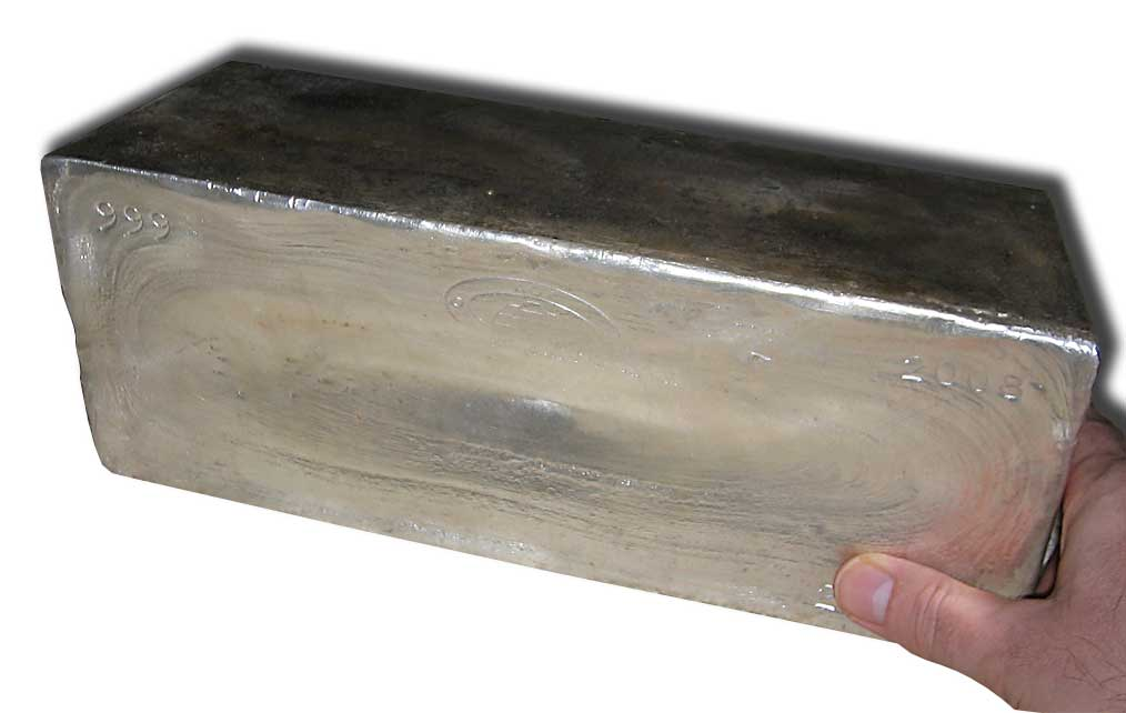 Silver bullion bar 1000oz bottom view / view from underneath